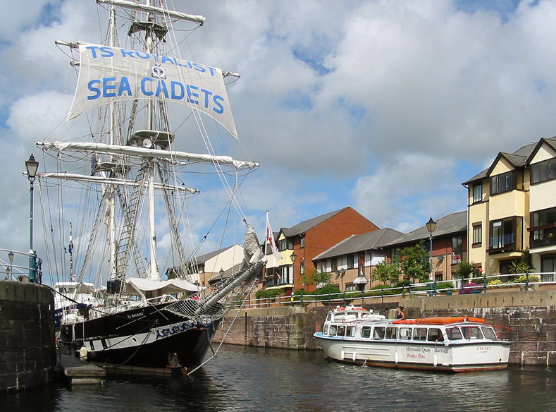 The tall ship Royalist and the waterbus Cygnet in Penarth Marina.